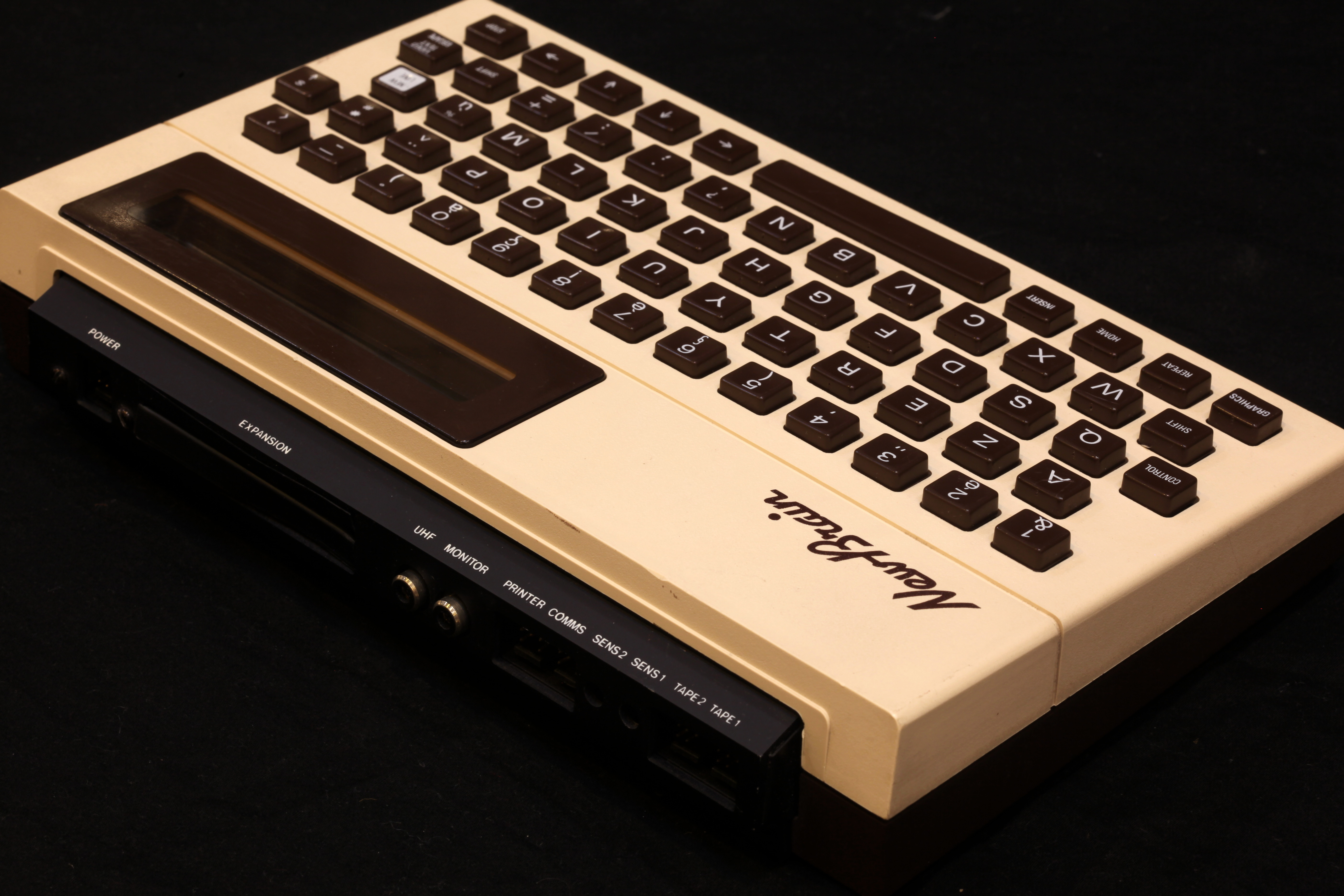 Grundy NewBrain computer. On display at the Musée Bolo, EPFL, Lausanne.